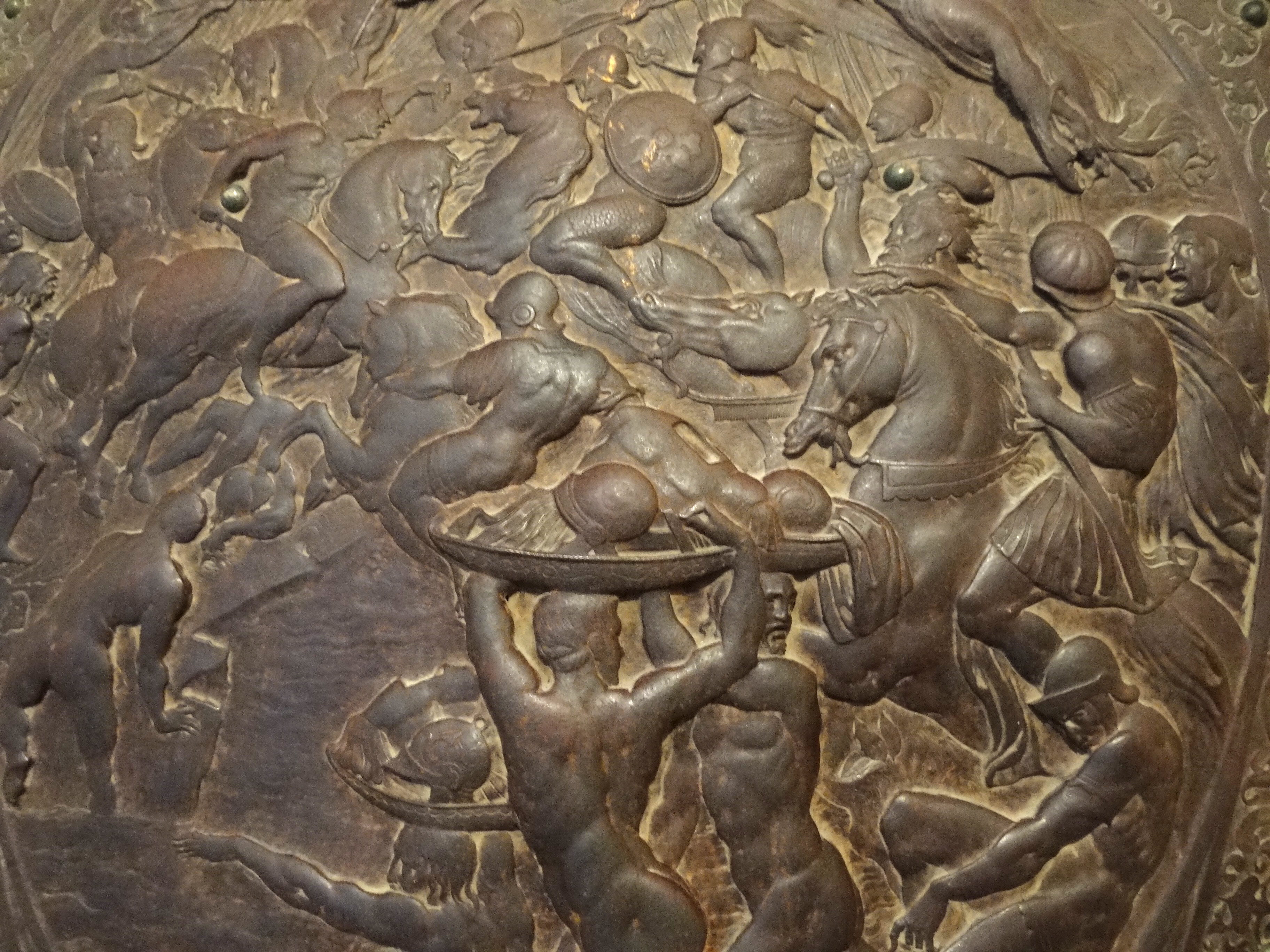 Battle Scene Depicted on Medieval European Shield - Khan's Palace - Kokand - Uzbekistan